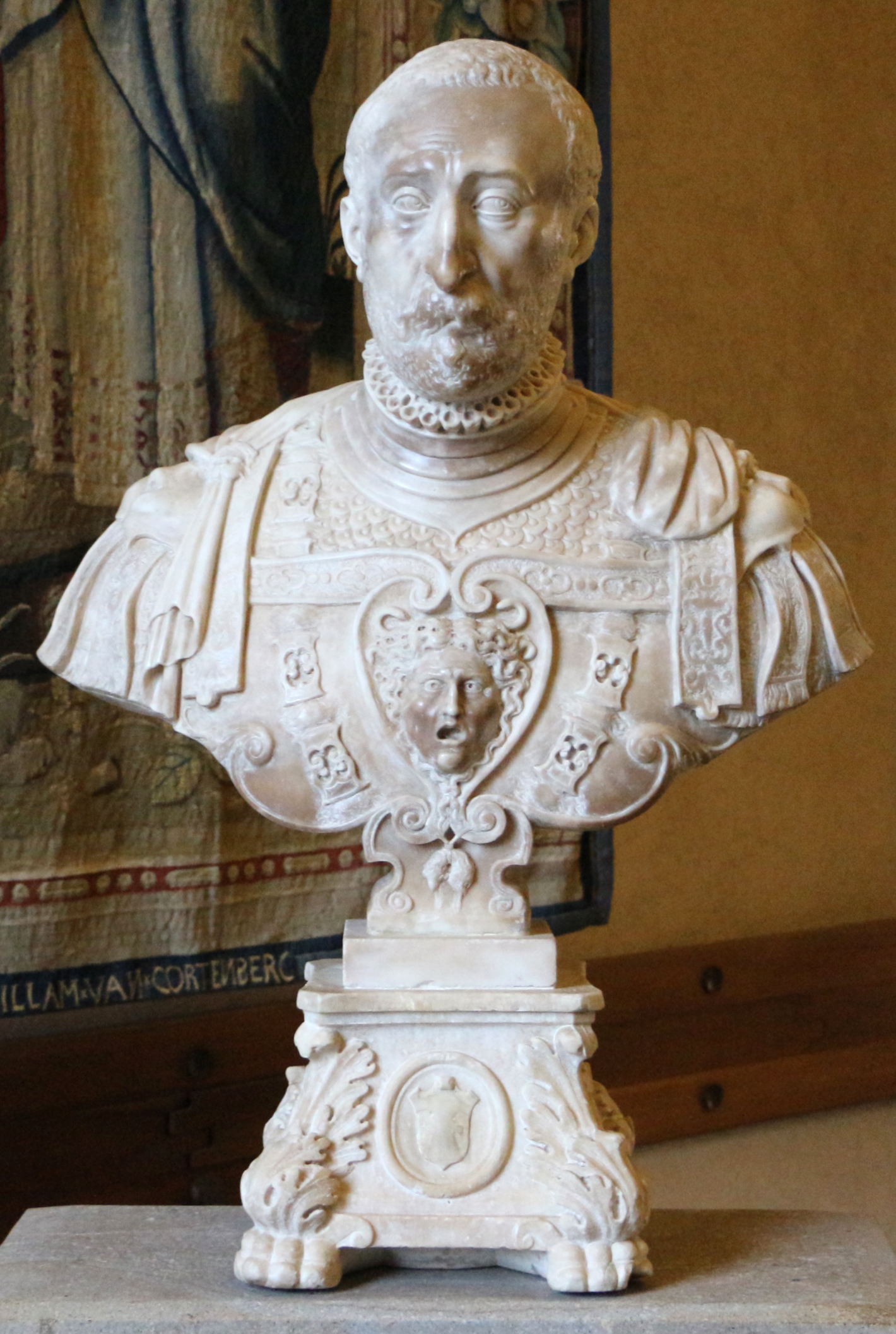 Museo d'arte antica (Milan) - 16th-century sculptures